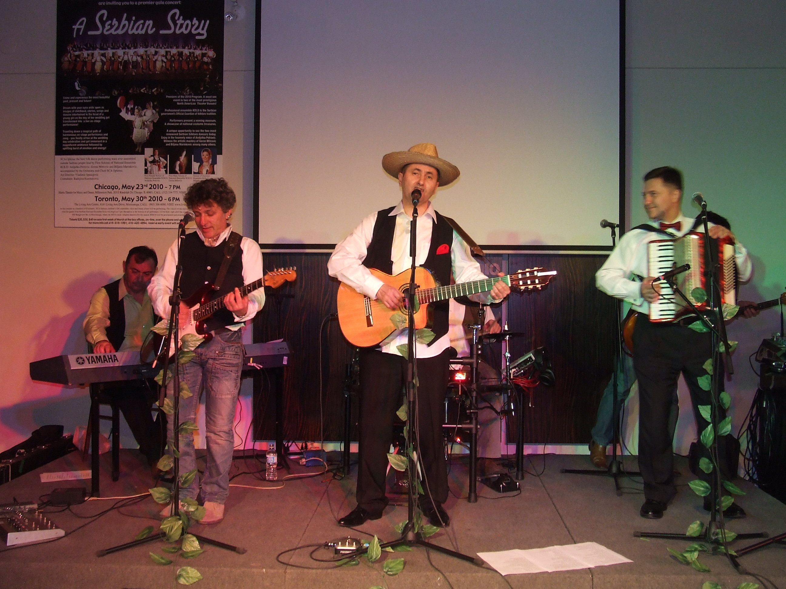 Garavi Sokak on stage, performing live in Mississuaga, Ontario, Canada in Oplenac Serbian club